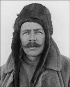 Portrait of Carsten Borchgrevink